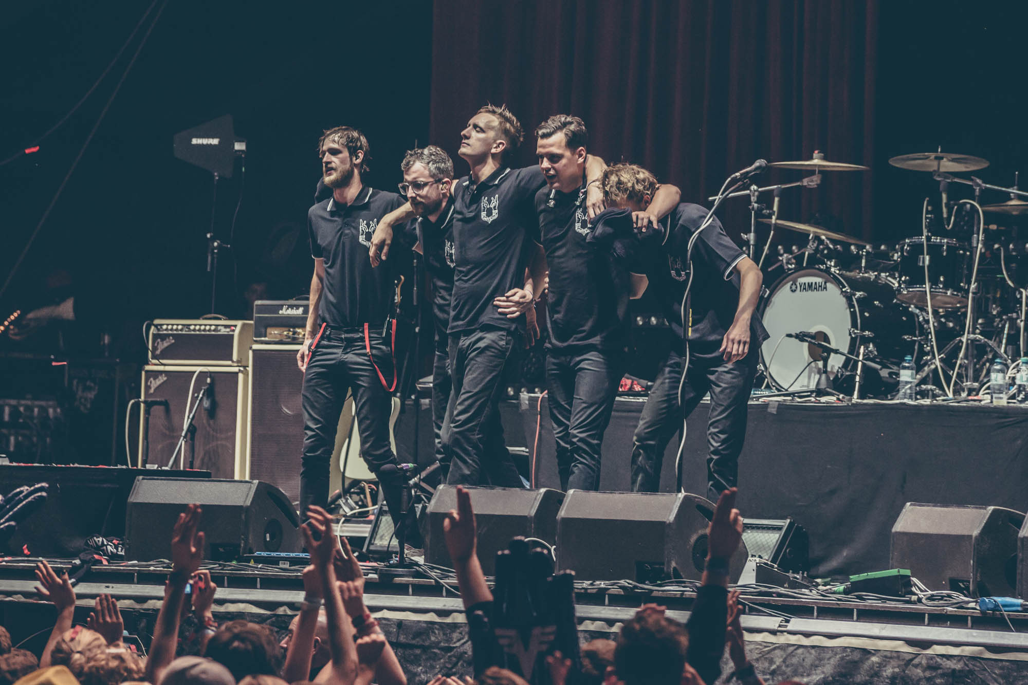 Dame